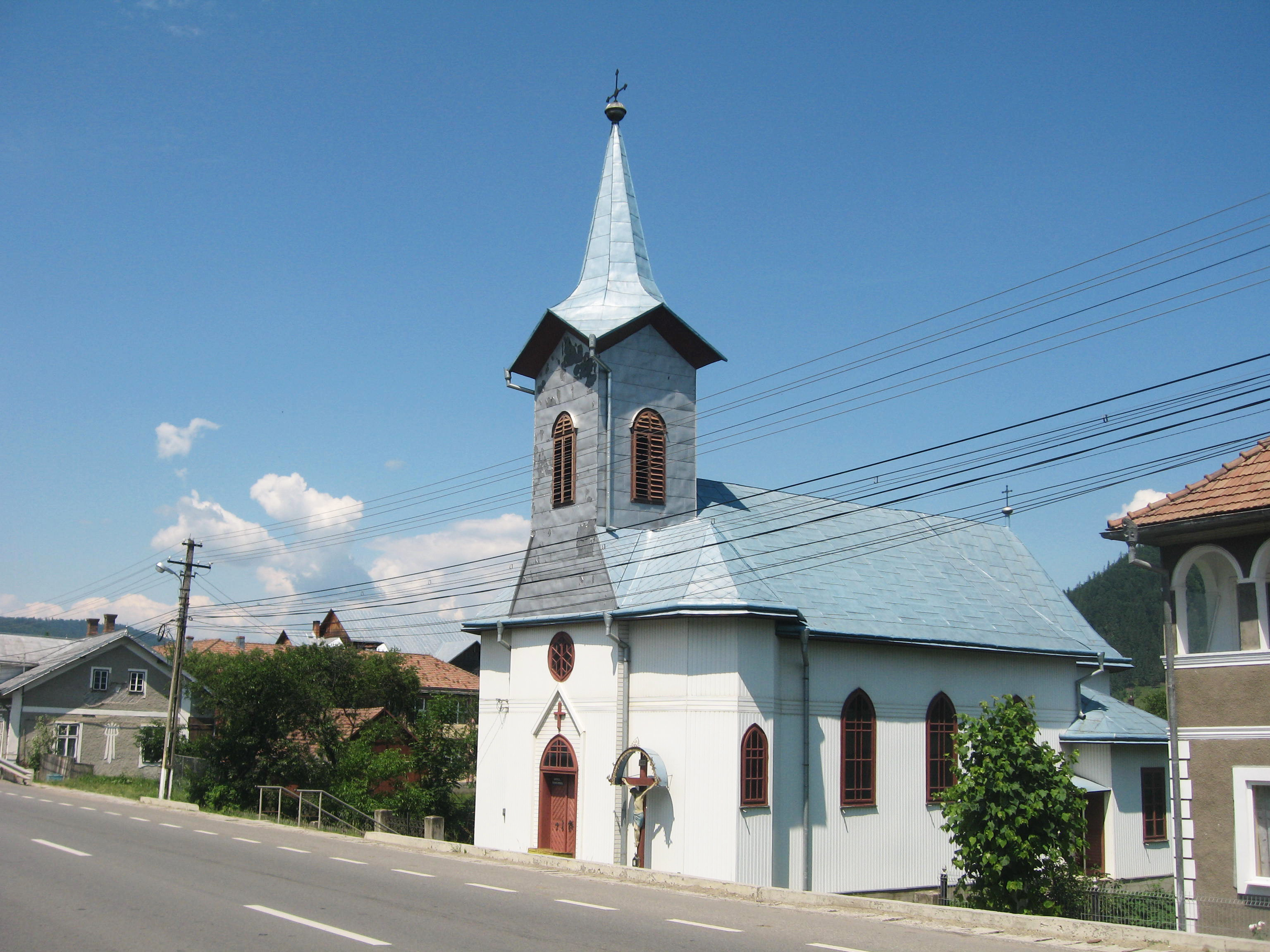 The Roman-Catholic Church in Frasin, Suceava County, Romania